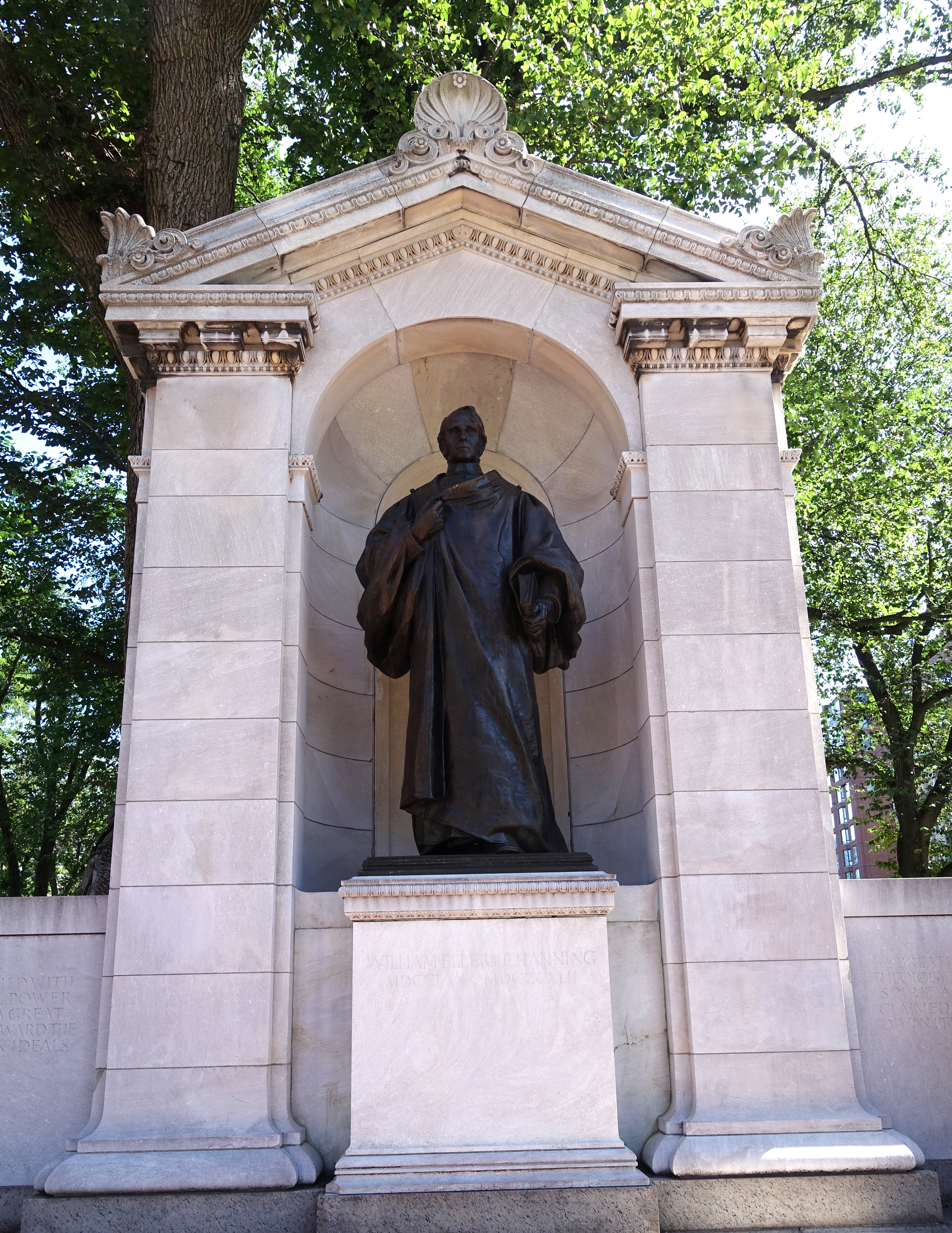 William Ellery Channing statue by Herbert Adams - Public Garden, Boston, Massachusetts, USA. This artwork is in the public domain because it was first published in the United States before 1923.